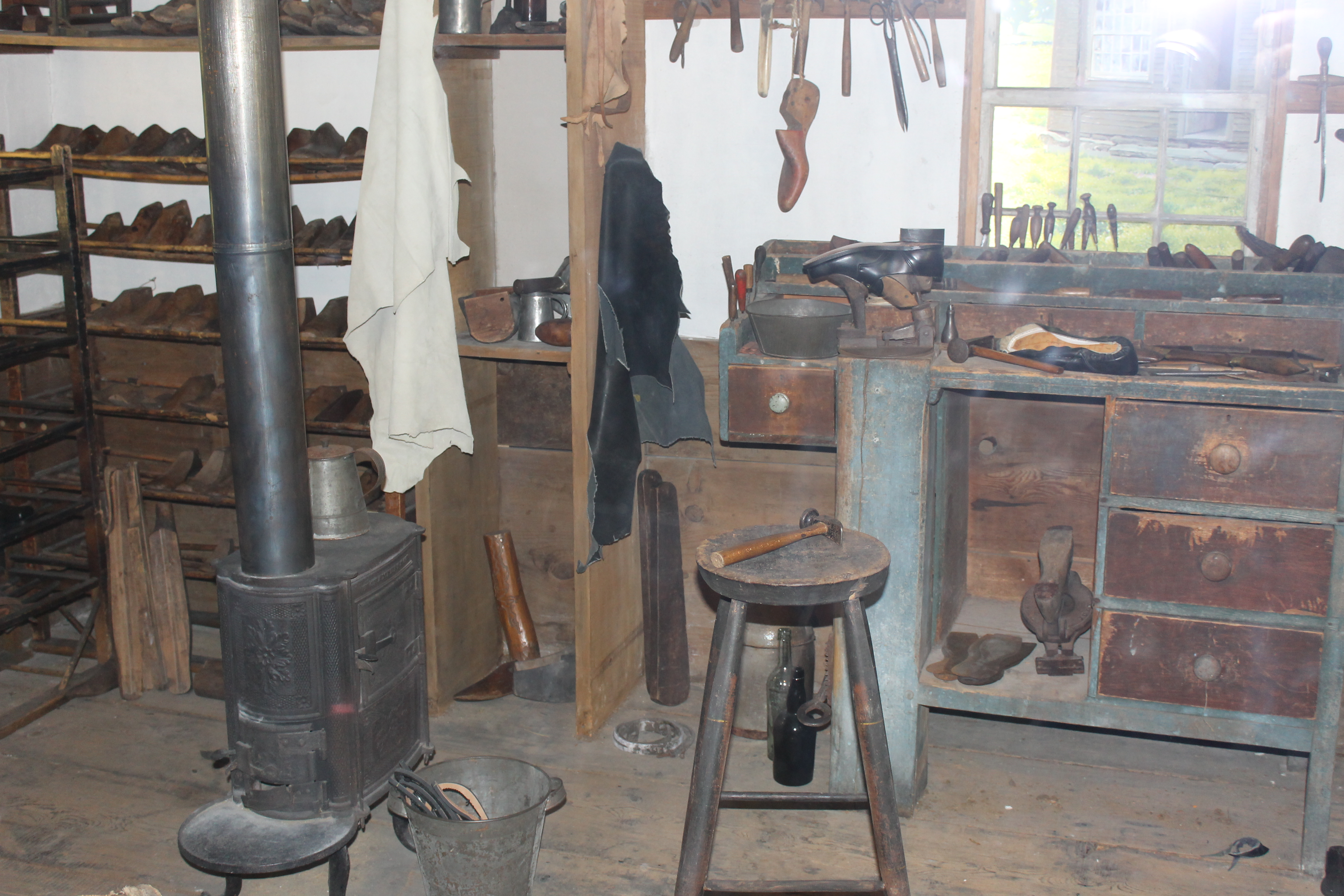 I took photo with Canon camera of early shoemaking shop exhibit at the Maine State Museum in Augusta.